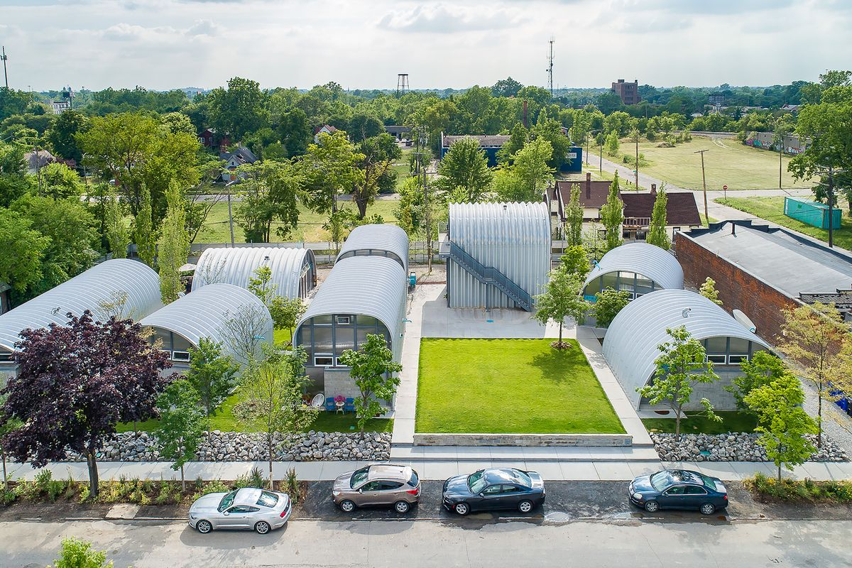 true north aerial photo